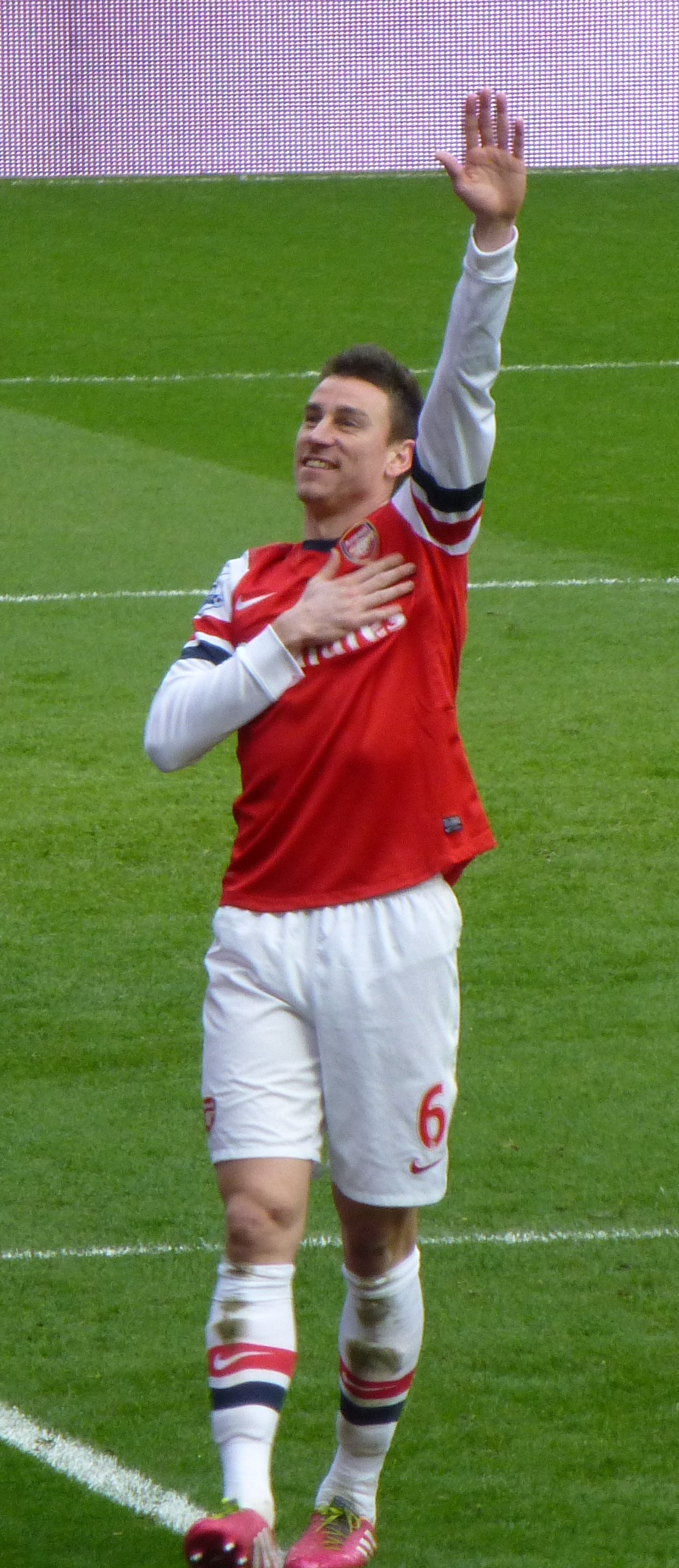 Laurent Koscielny celebrates scoring a goal against Sunderland in an English Premier League match on 22 February 2014.